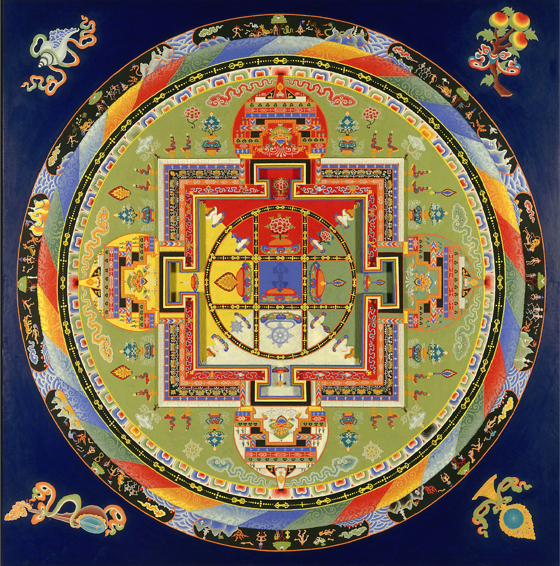 photo from the Minneapolis Institute of Arts' website[1]